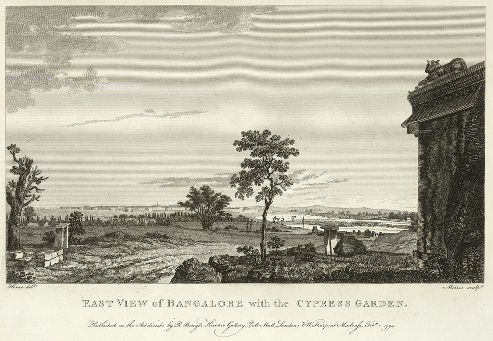 Etching of "Cypress Gardens" (now called Lal Bagh gardens), Bangalore. The gardens were originally laid out by Haidar Ali and were modeled on gardens in Sira laid out by its last Mughal governor, Dilavar Khan (ruled 1726–1756)